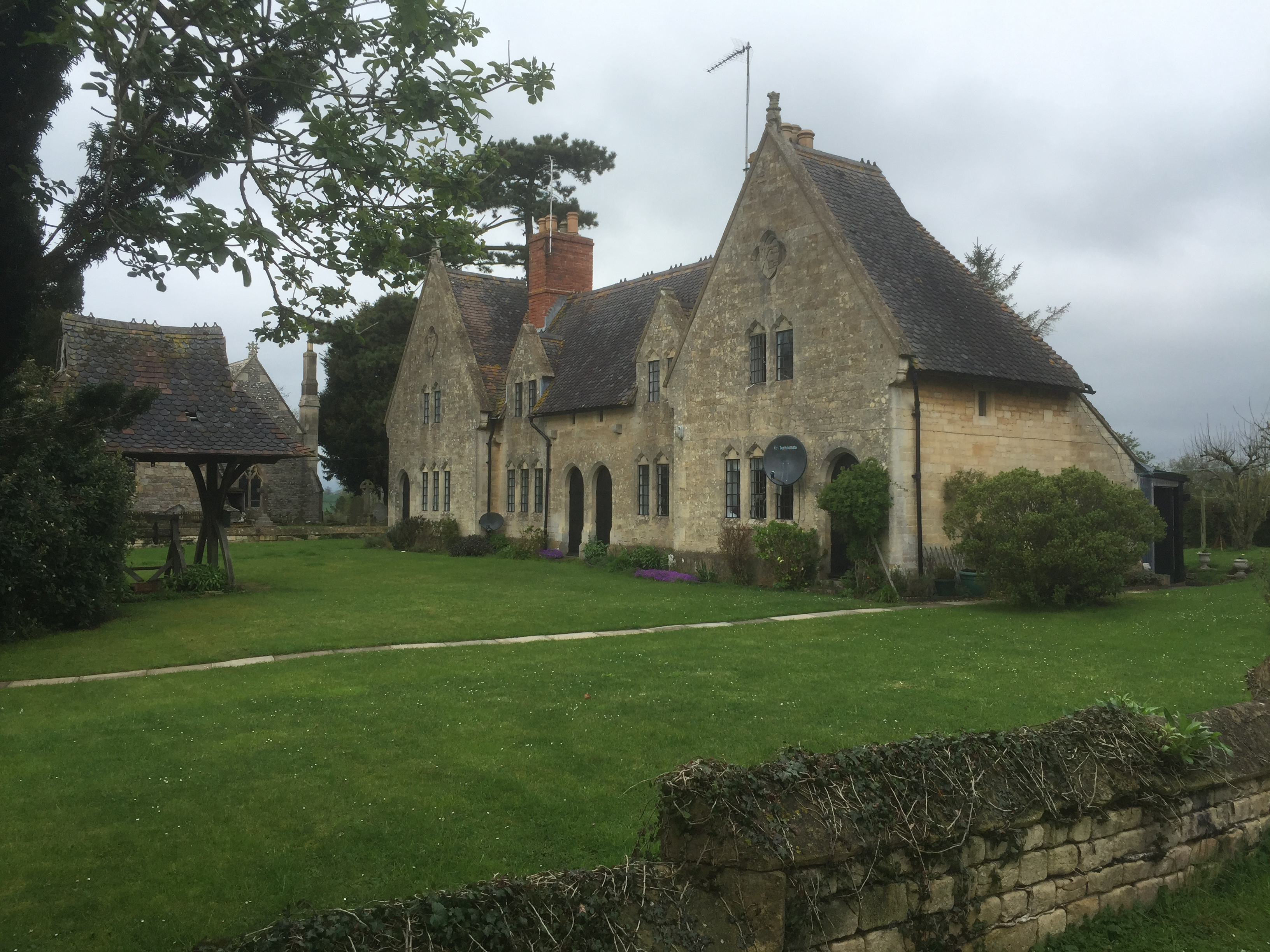 Yorke Almshouses. Forthampton, Gloucestershire, England, Great Britain